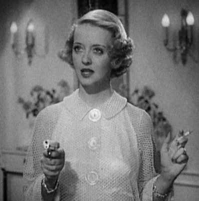 Frame from public domain trailer for Warner Bros. 1936 film Satan Met a Lady showing Bette Davis as Val pointing a pistol. Cropped version of File:ValGunSatanLady36Trailer.jpg